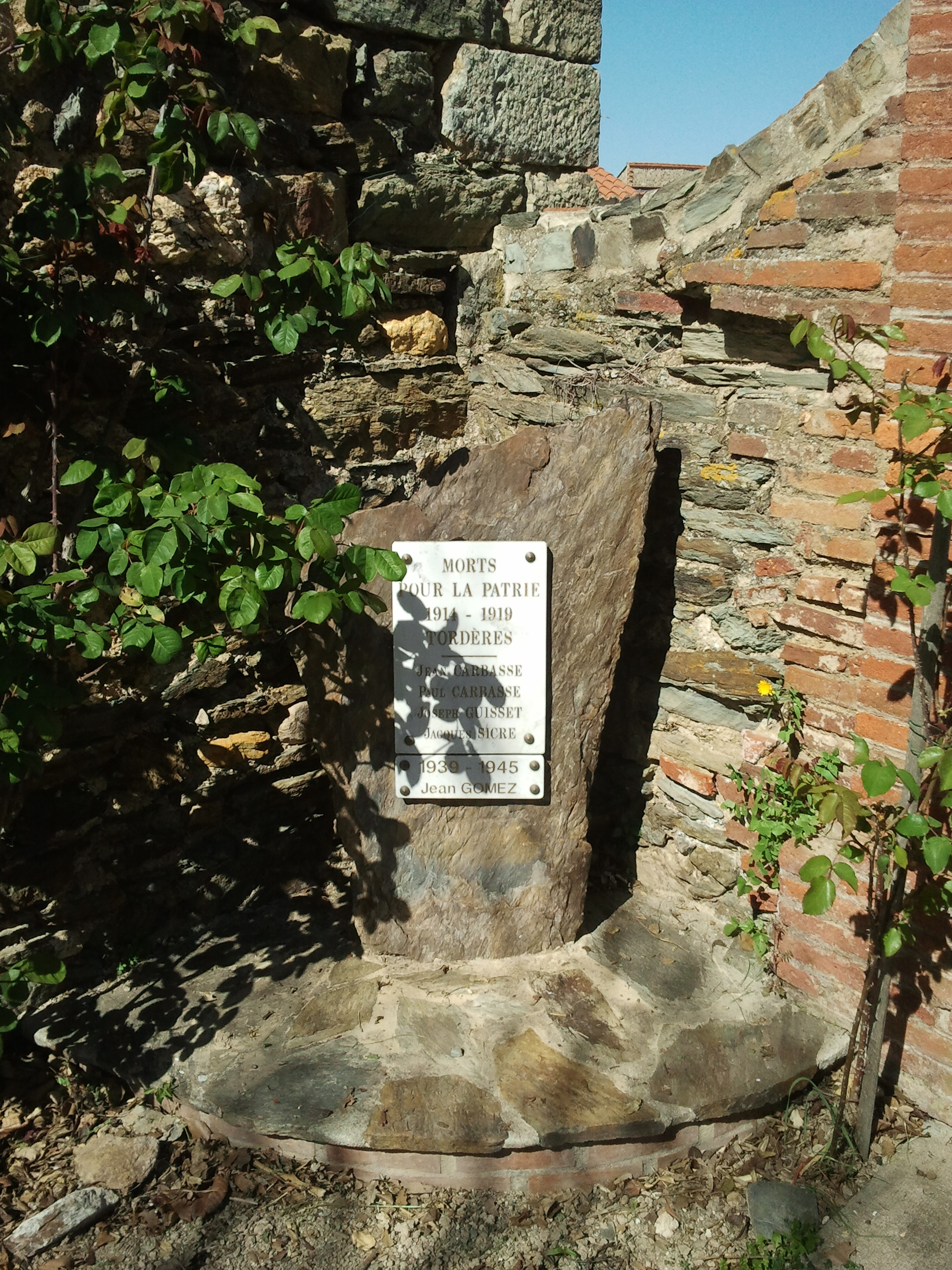 War memorial in Tordères